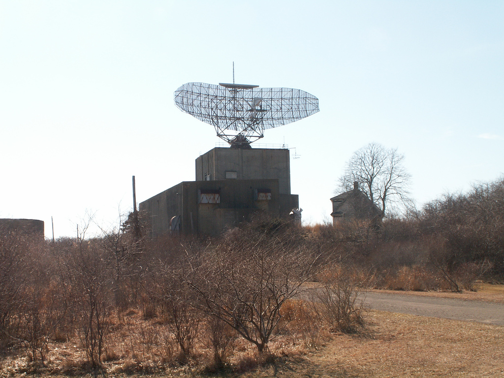 AN-FPS-35 Radar at Camp Hero, Montauk, NY. This is the only radar of this kind left. It has been decommissioned and was left officially because boaters on Long Island sound said it was a much better landmark than the Montauk Lighthouse. The radar plays prominently in the debate about "The Montauk Project" and time travel. I took this photo in March 2006 with a Canon A60.